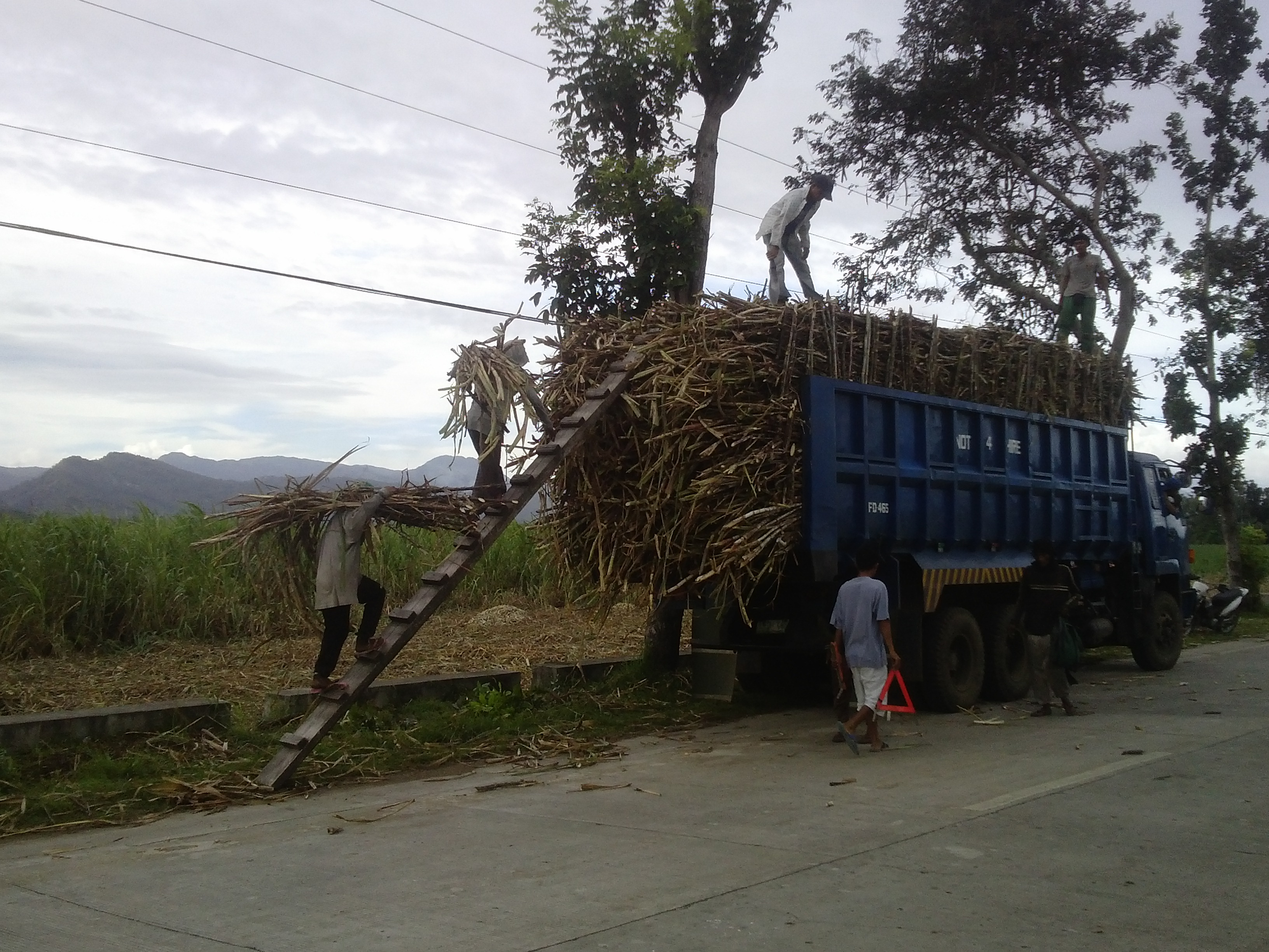 Because of poverty, workers are effectively tied to the haciendas on which they do backbreaking work in the sugar cane plantations of Negros Island in the Philippines. Here cane cutters load a truck on the national highway outside Bais City.